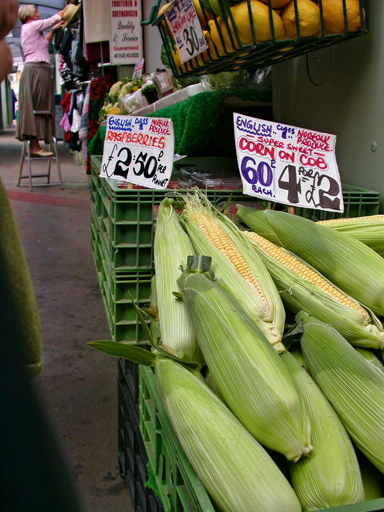 A small part of the market in Norwich city uk. There's been a market in Norwich since Saxon times. There are over 190 stalls laid out in rows with access between the stalls to adjacent rows. To quote the Official Norwich Market website; By 1300, Norwich was the capital of East Anglia and the market stretched from what is now All Saint’s Green to London Street and up over the land covered by City Hall. Animals, timber, spices, hides, fish, leather tanning, honey, cheese and meat were all for sale as well as madder for dyeing, parchment, and ironwork. In 1341 King Edward III visited Norwich and granted the franchise of the market to the city’s rulers in perpetuity.